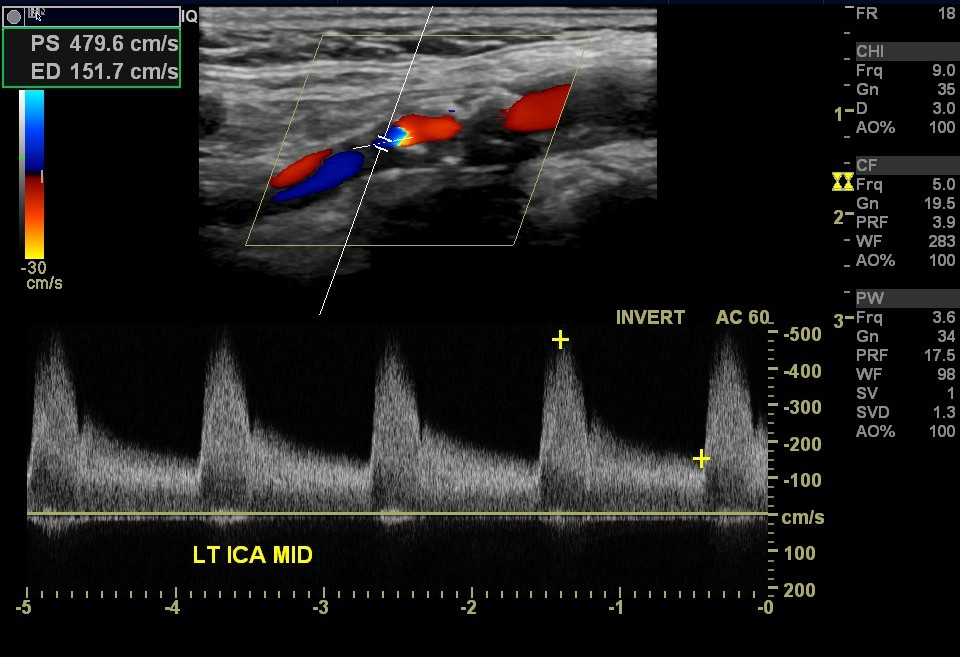 internal carotid artery stenosis in ultrasound; near occlusion